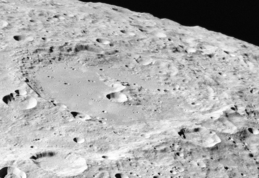 Oblique view of Fabry, on the far side of the moon. North is in upper right.